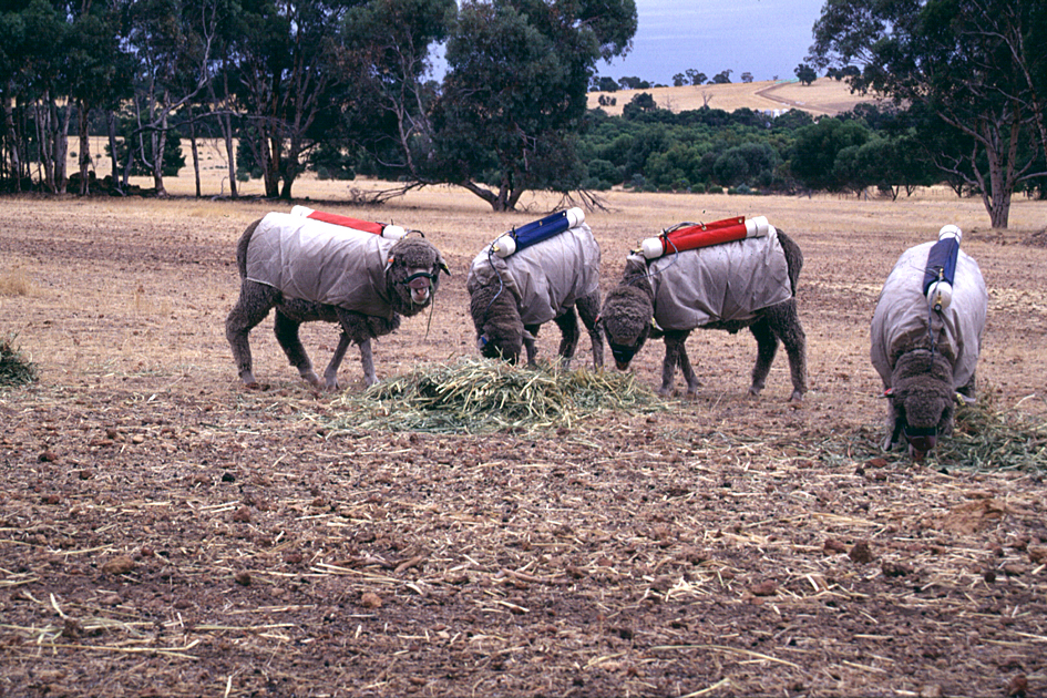 Methane is a very potent greenhouse gas - some 21 times more potent than carbon dioxide. Methane is produced by sheep and cattle as part of the normal processes of fermentation of feed in the rumen. This methane is estimated to contribute 14 per cent of Australia's total greenhouse gas emissions. This image shows sheep fitted with mechanisms for collecting exhaled methane. Methane is produced in the rumen of the animal by small micro-organisms called methanogenic archae, or methanogens, and the gas is breathed out. Methane production represents between two and 12 per cent of gross energy intake. It therefore seems reasonable to expect that production increases in this range would occur if methane production were reduced. For the last 10 years, CSIRO has researched a number of approaches to reducing methane production in sheep and cattle, and holds several world-wide patents on a range of technologies. The most promising approach to date is vaccinating the animal against the